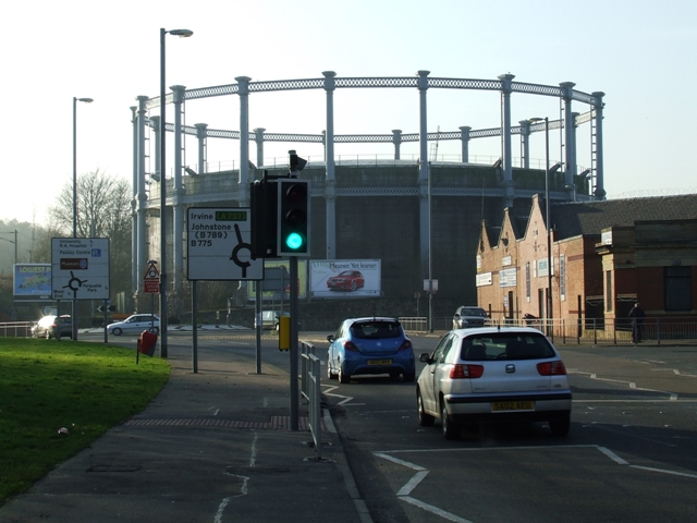 Paisley gas holder At the junction of Underwood Rd and Well St.